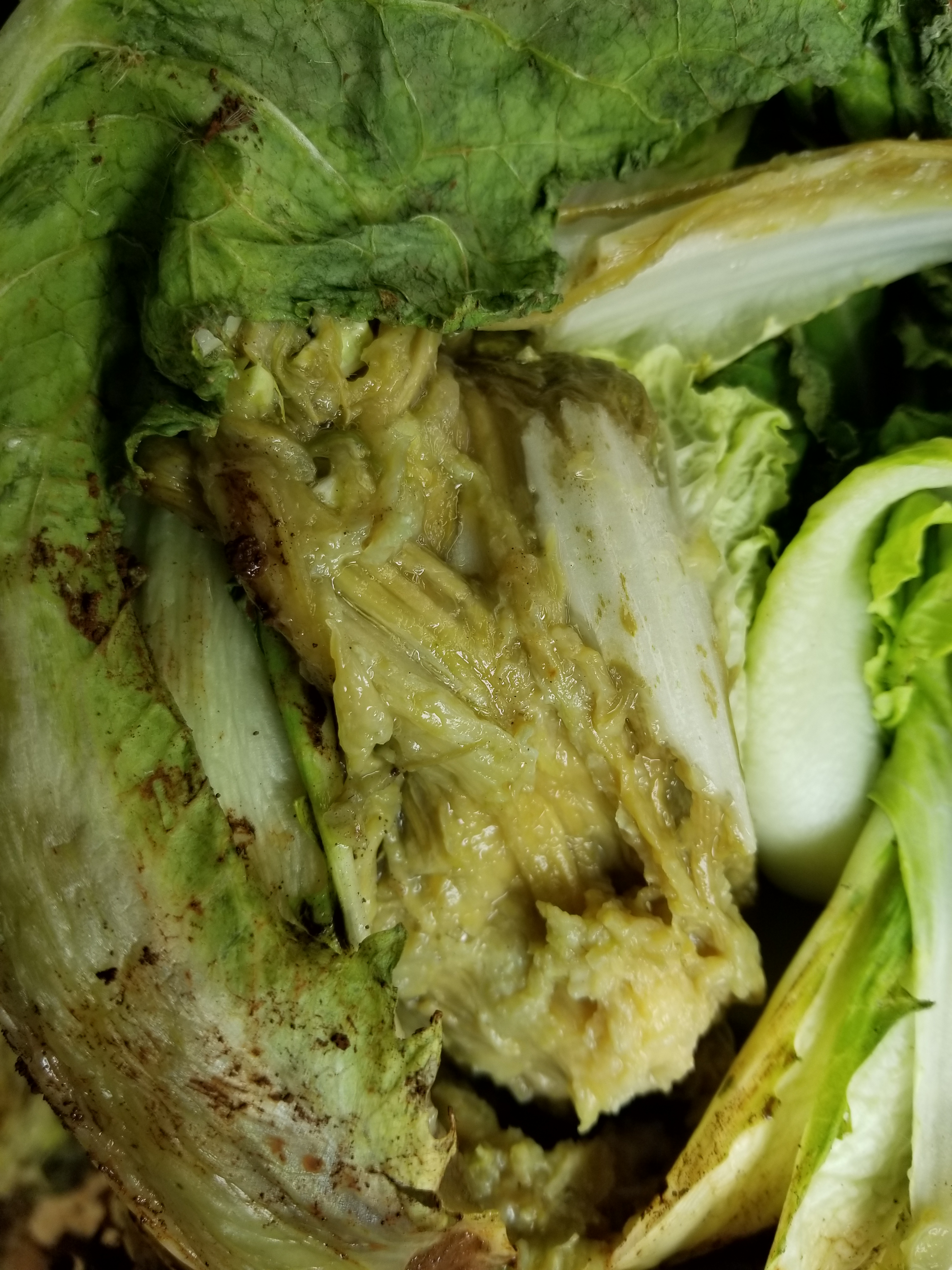 Flickr description Pathogen: Erwinia carotovora subsp. carotovora Affected plants impart a decidedly foul odor